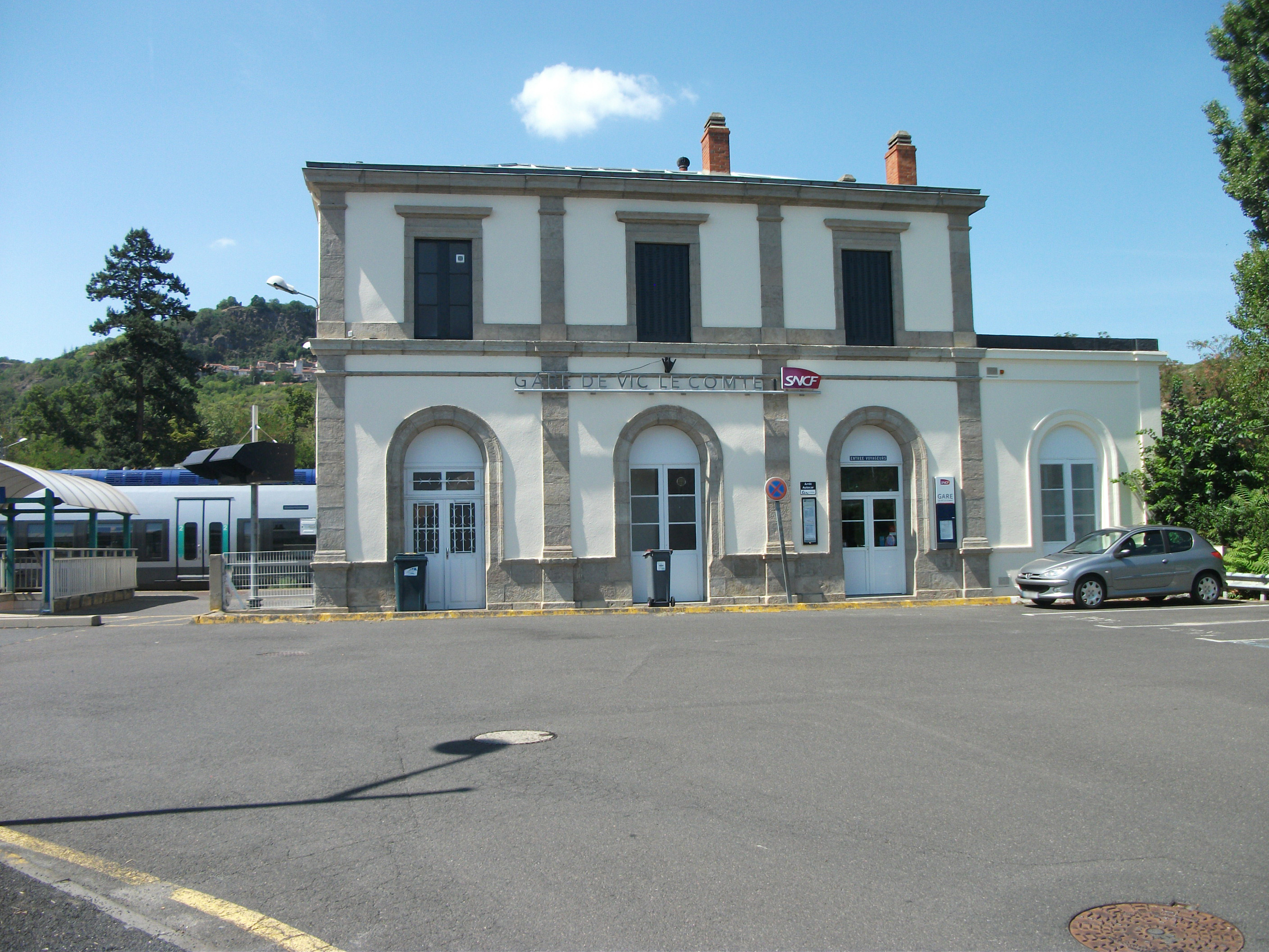 Vic-le-Comte railway station [8699]